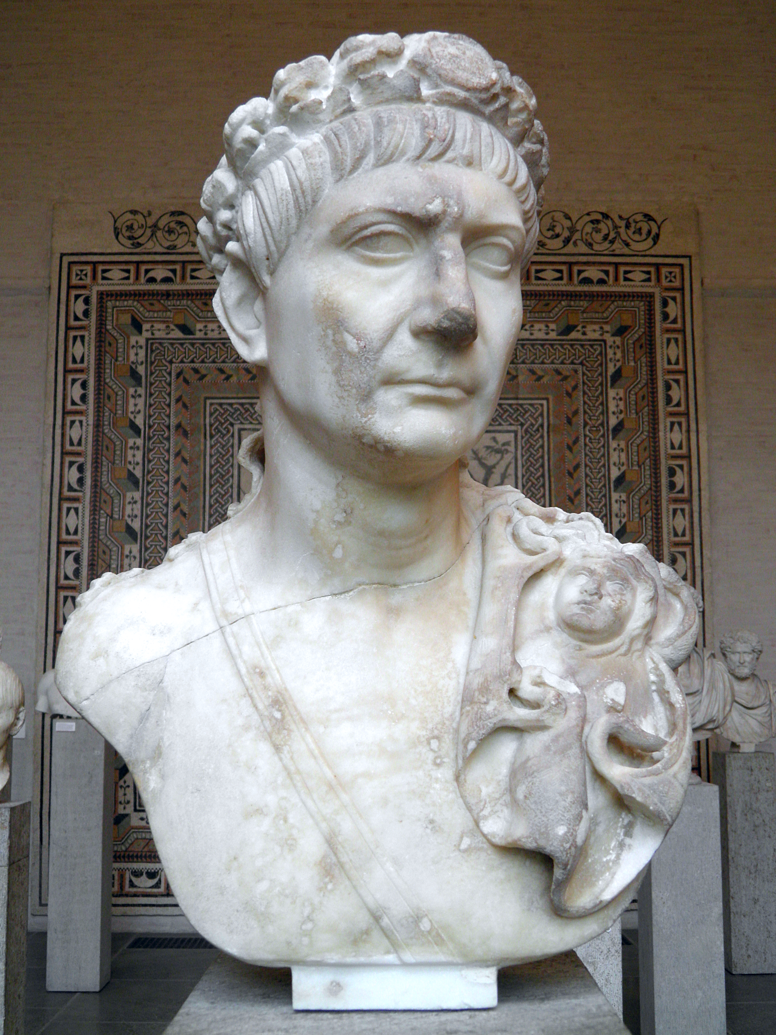 Bust of Trajan wearing the Civic Crown with medallion, a sword belt and the aegis (as symbol of divine power and world domination), Glyptothek, Munich